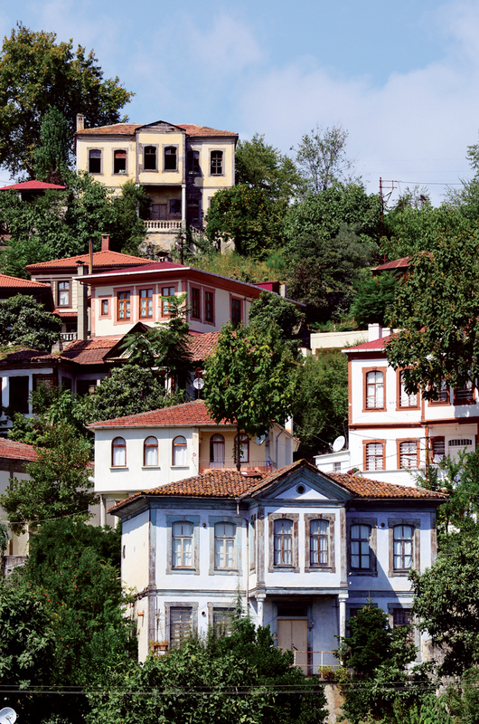 Historic mansions in Trabzon, Turkey.